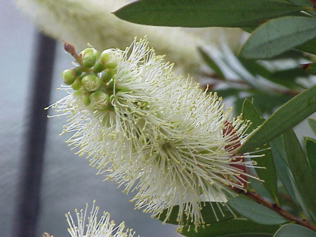 Species: Callistemon pallidus Family: Myrtaceae Image No. 2